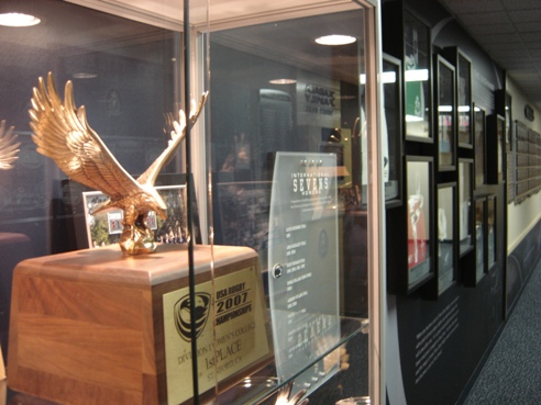 Penn State Rugby Kabala Rugby Hall of Honor